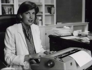 Mari Maseng types in the White House in 1981